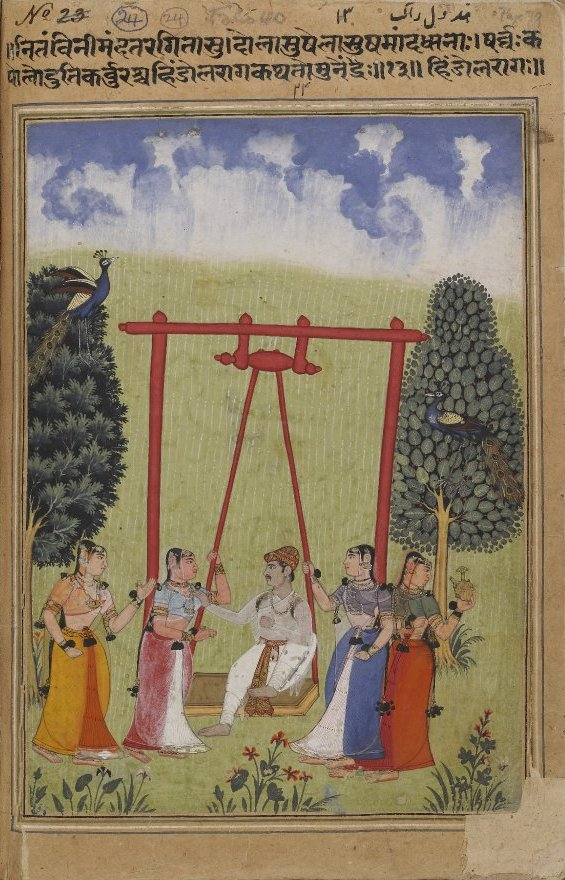 Raga_Hindola._Amber,_ca._1610,_British_Museum,_London.jpg